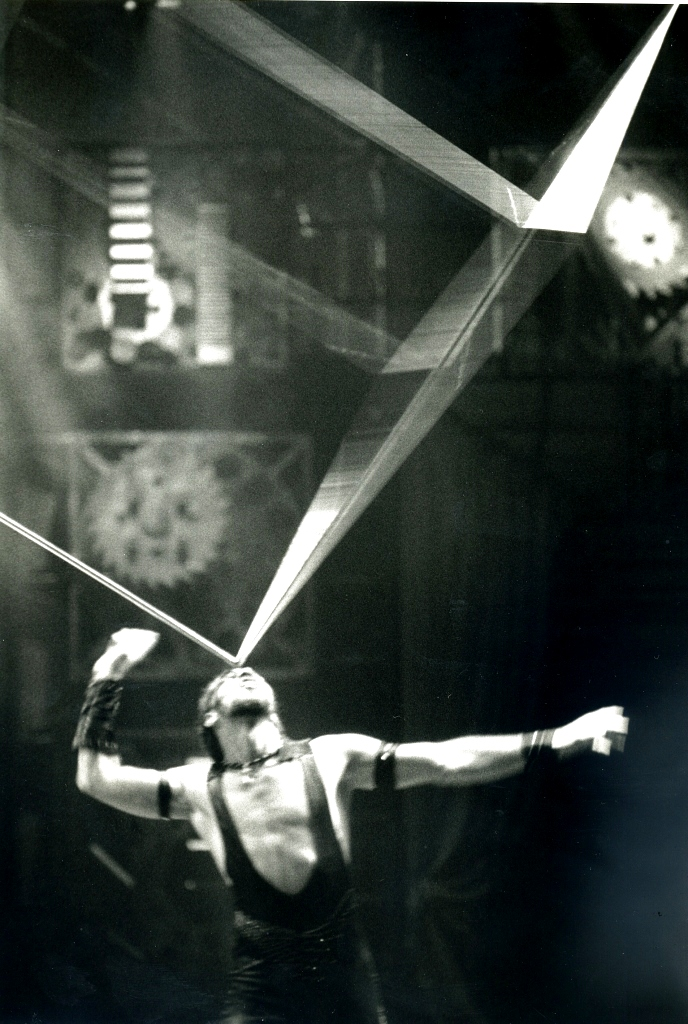 Tkach appearing on The Secret Cabaret in 1992